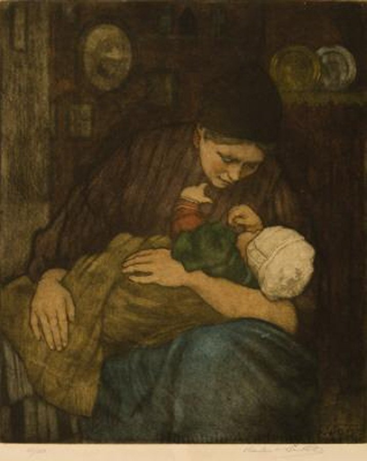 Motherhood, Holland